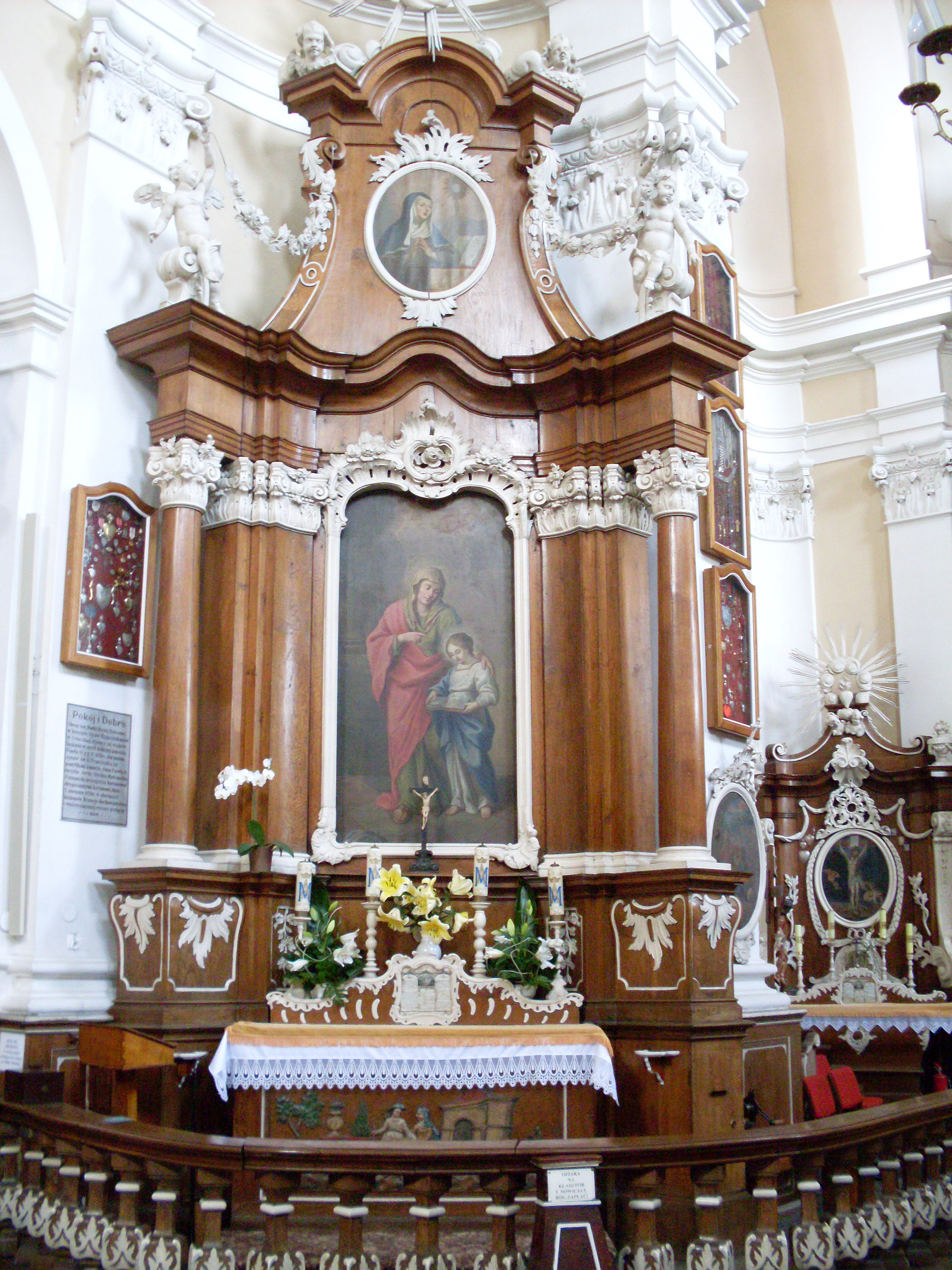 Church. St. Valentine's Day: the altar of the famous miraculous image of Our Lady of Sorrows and Child (Pieta with dimensions 69.5 x 90.5 cm - revealed to) - Osieczno / area. Leszno / province. Greater Poland / Poland